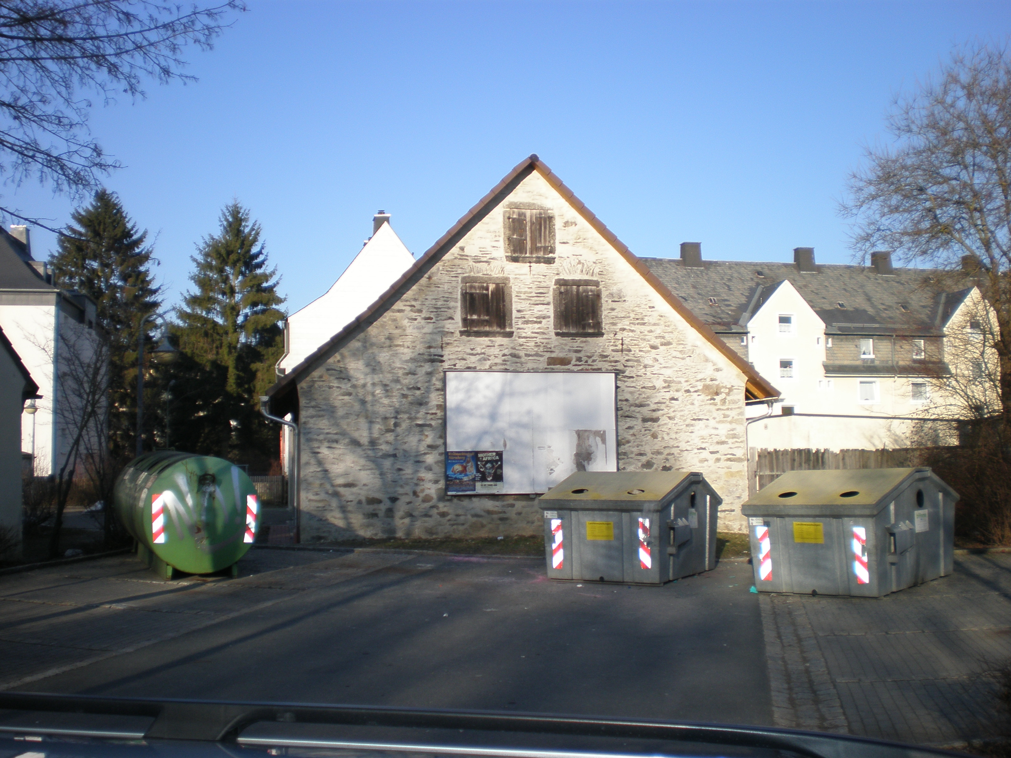 The "Anger" in Münchberg, where "citizens" were able to store their cultured plants.